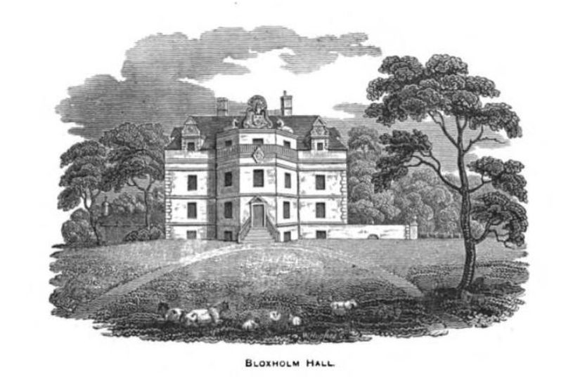 Engraving of Bloxholm Hall - a now demolished stately hall in Lincolnshire, England